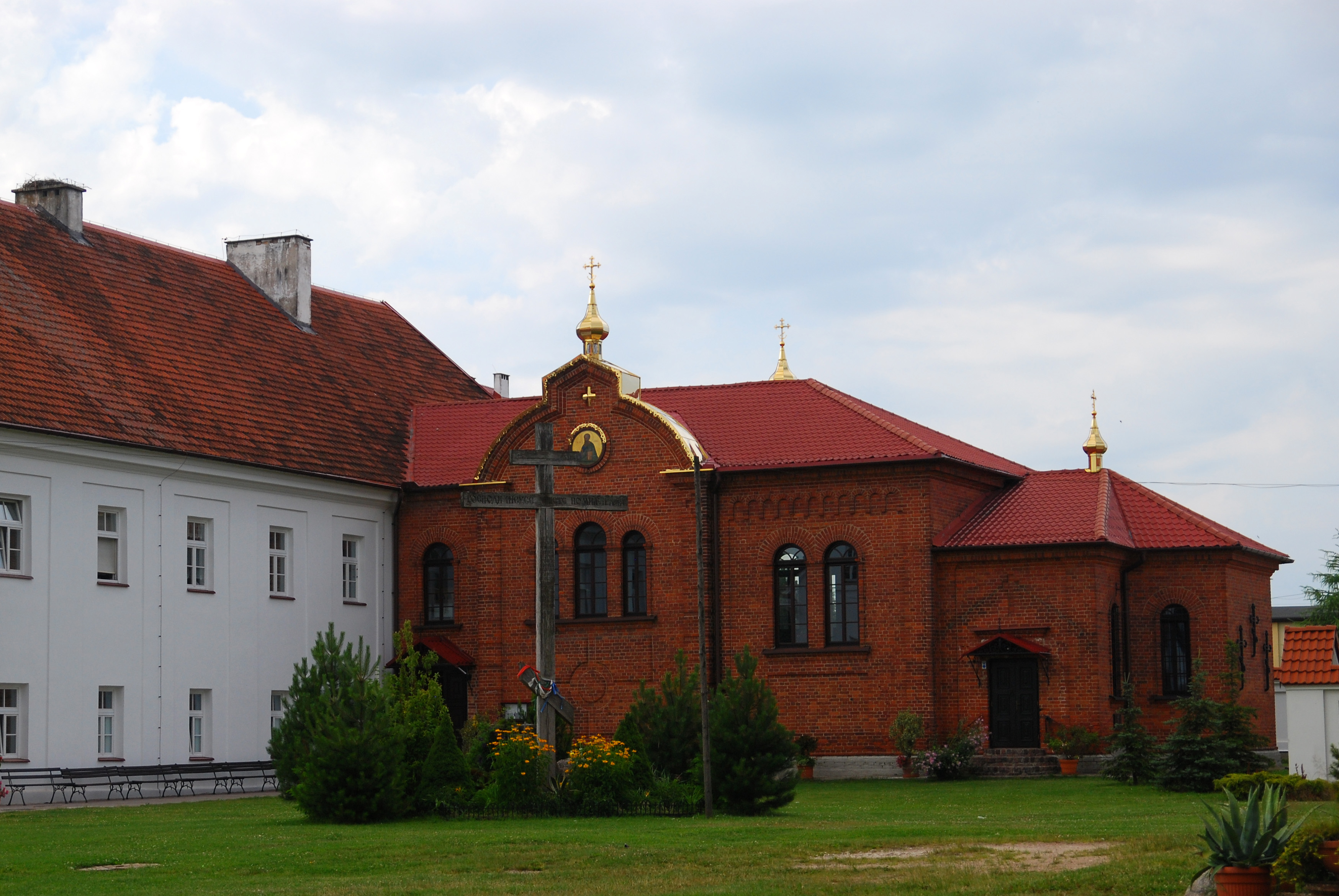 Cerkiew św. Jana Teologa w Supraślu This photo from Podlaskie Voievodeship was taken during Polish Wikiexpedition 2009 set up by Wikimedia Polska Association. The making of this document was supported by Wikimedia Polska.